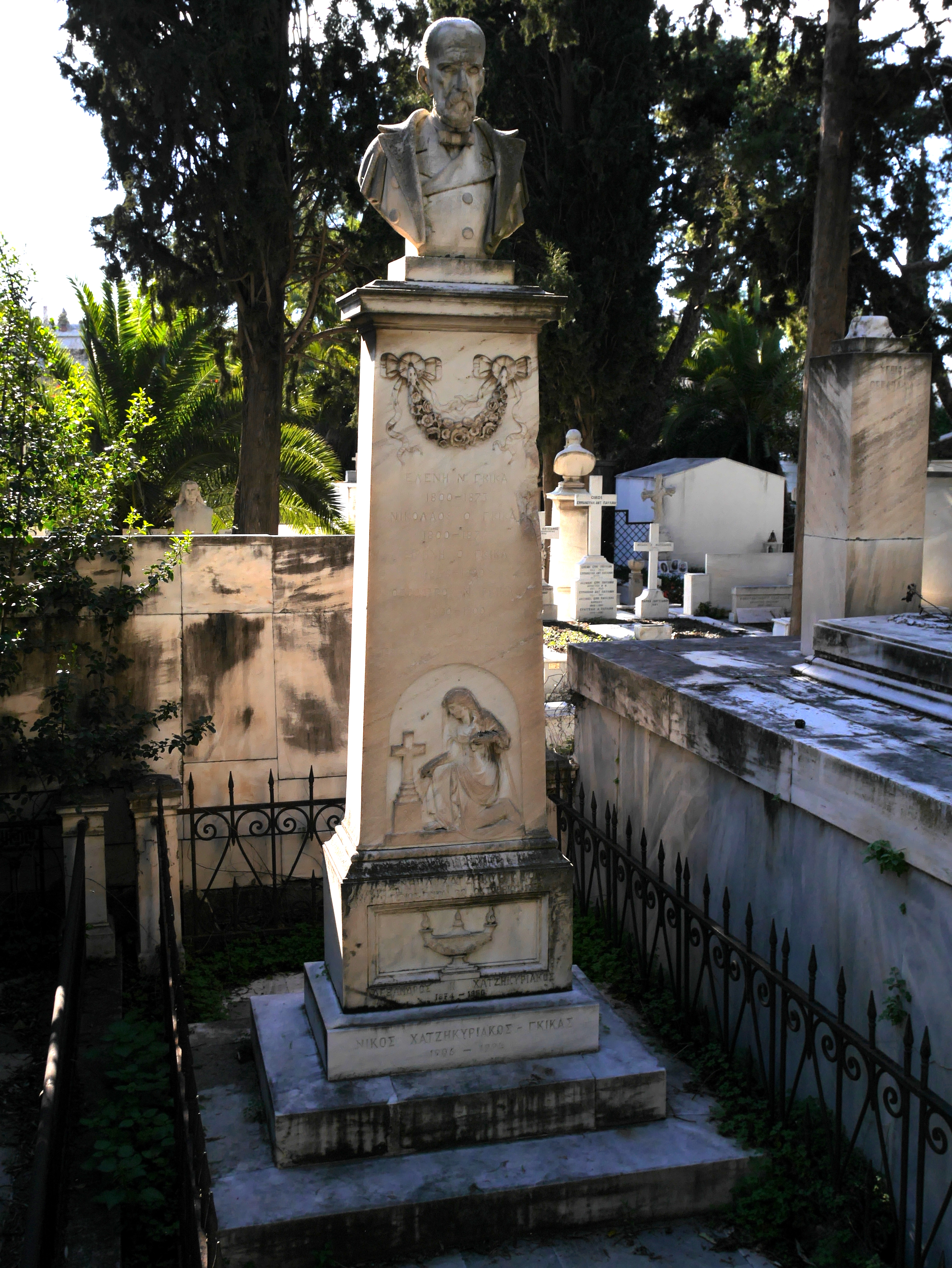 The tomb of the Ghikas (Γκίκας) family, including that of the painter Nikos Hadjikyriakos-Ghikas.